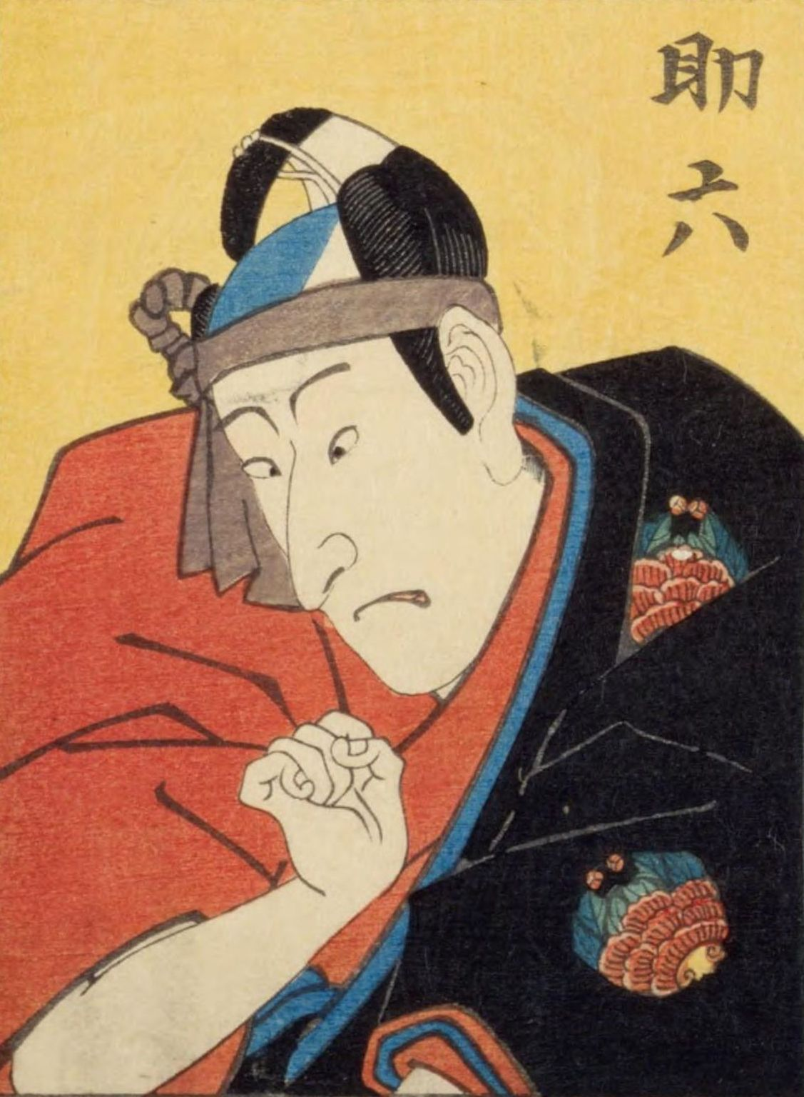 Zōhiki, Shibaraku, Uirō, Rokubu, Fudō, Sukeroku, Kagekiyo, Gorō, by Toyokuni Utagawa III featuring Danjūrō Ichikawa VI as Hanatogawa Sukeroku in Sukeroku